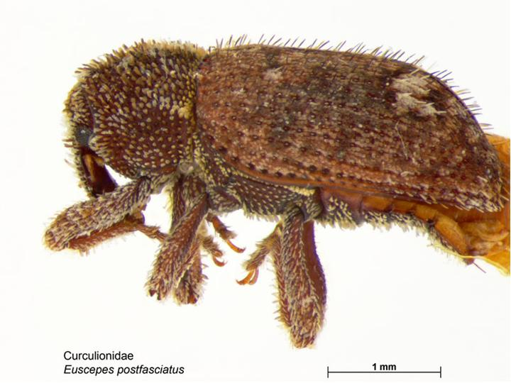 Euscepes postfasciatus lateral view